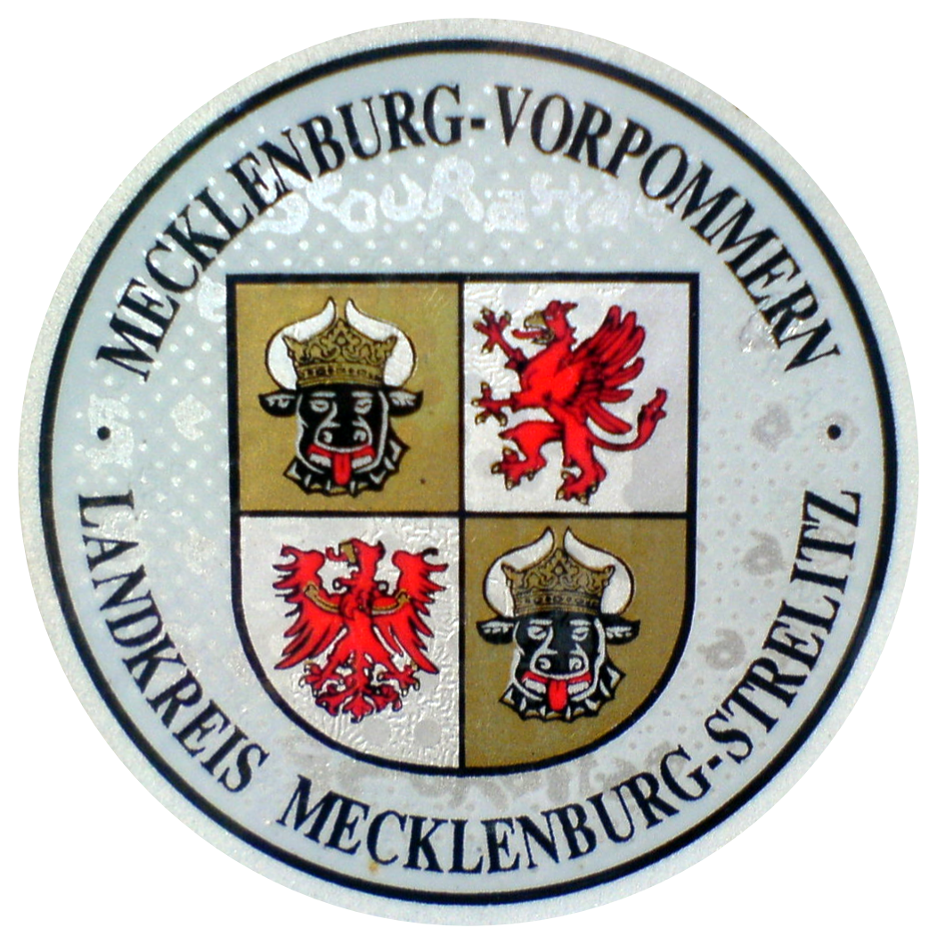 Seal of a German motor vehicle registration plate: district of Mecklenburg-Strelitz, Mecklenburg-Vorpommern.